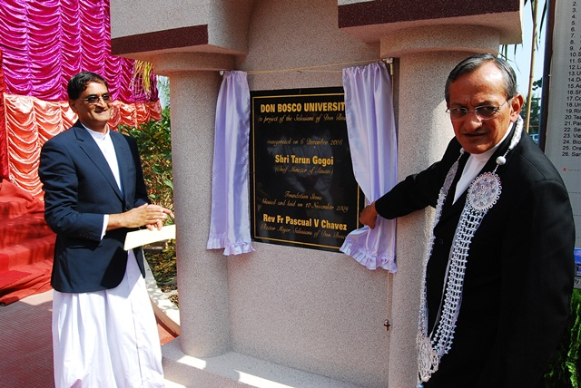 Fr. Pascual Chávez, Rector Major, Salesians of Don Bosco (right) and Fr. (Dr.) Stephen Mavely, Vice Chancellor, ADBU (left), laying the Foundation Stone of the University